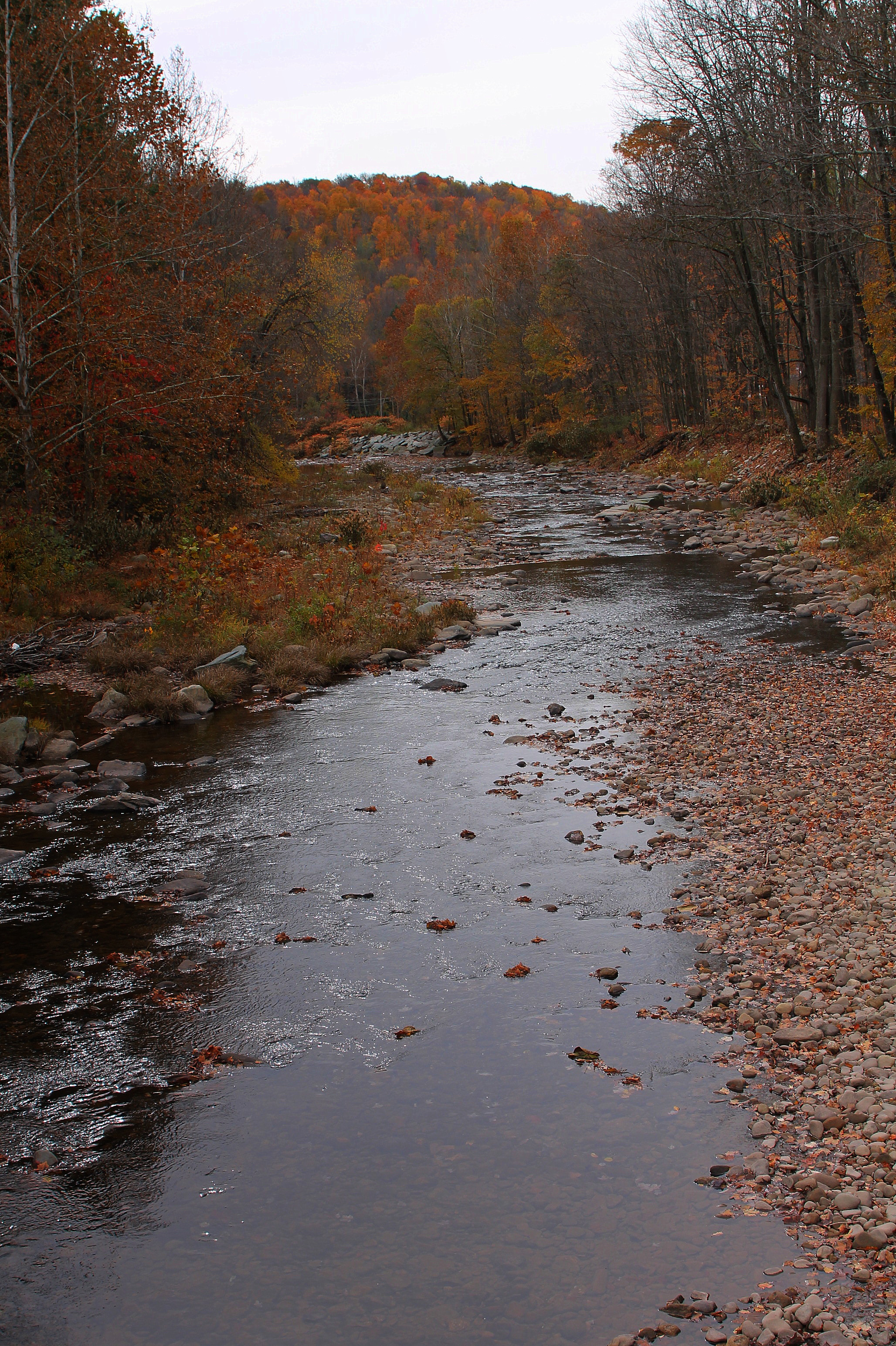 Bowman Creek looking downstream near Noxen